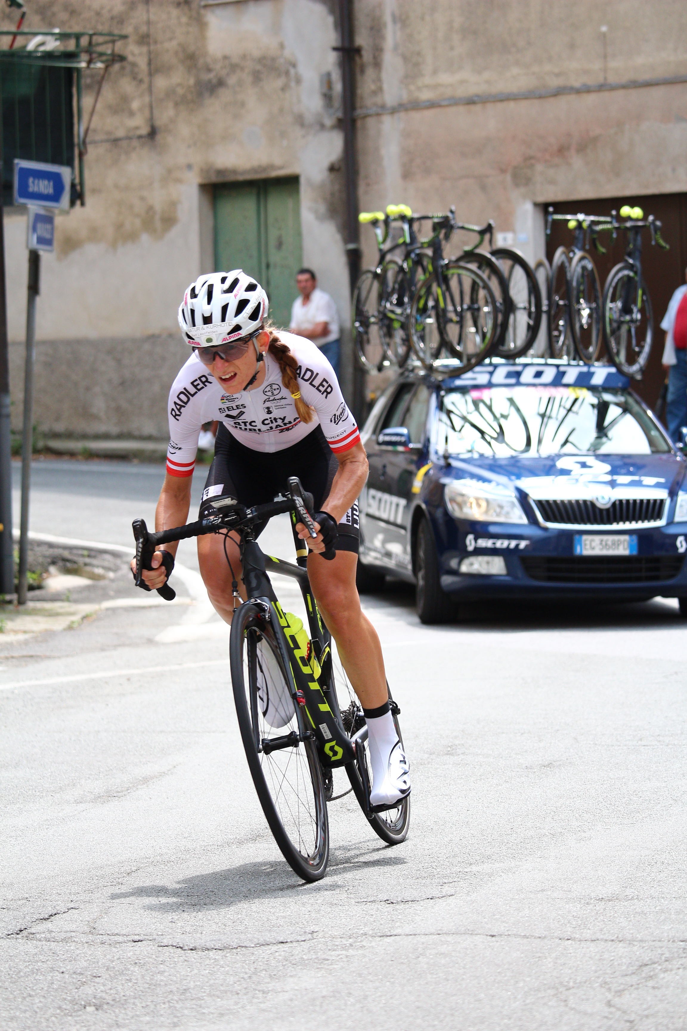 Martina Ritter during the 7th stage of Giro Rosa 2016 in Stella San Martino